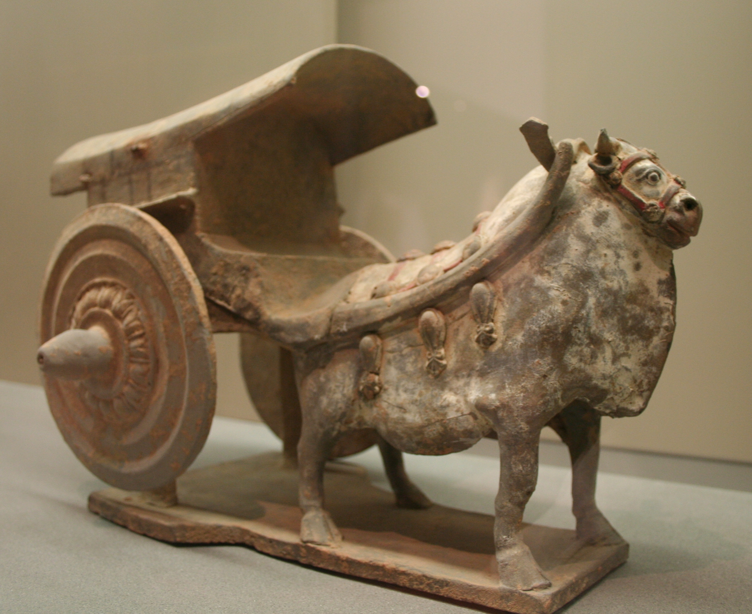 Cart Pulled by a Bull (Niuche). Terra Cotta. Sui Dynasty (581 – 618). Cernuschi Museum, Paris, France.